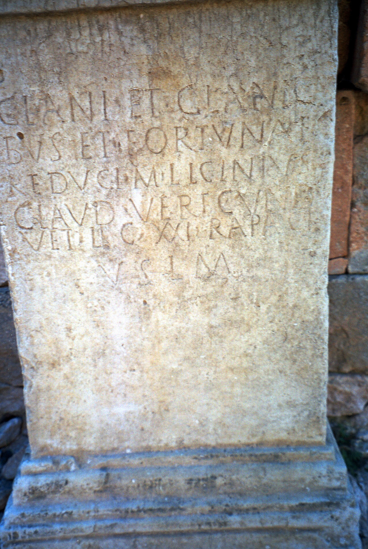 Latin inscription from Glanum.